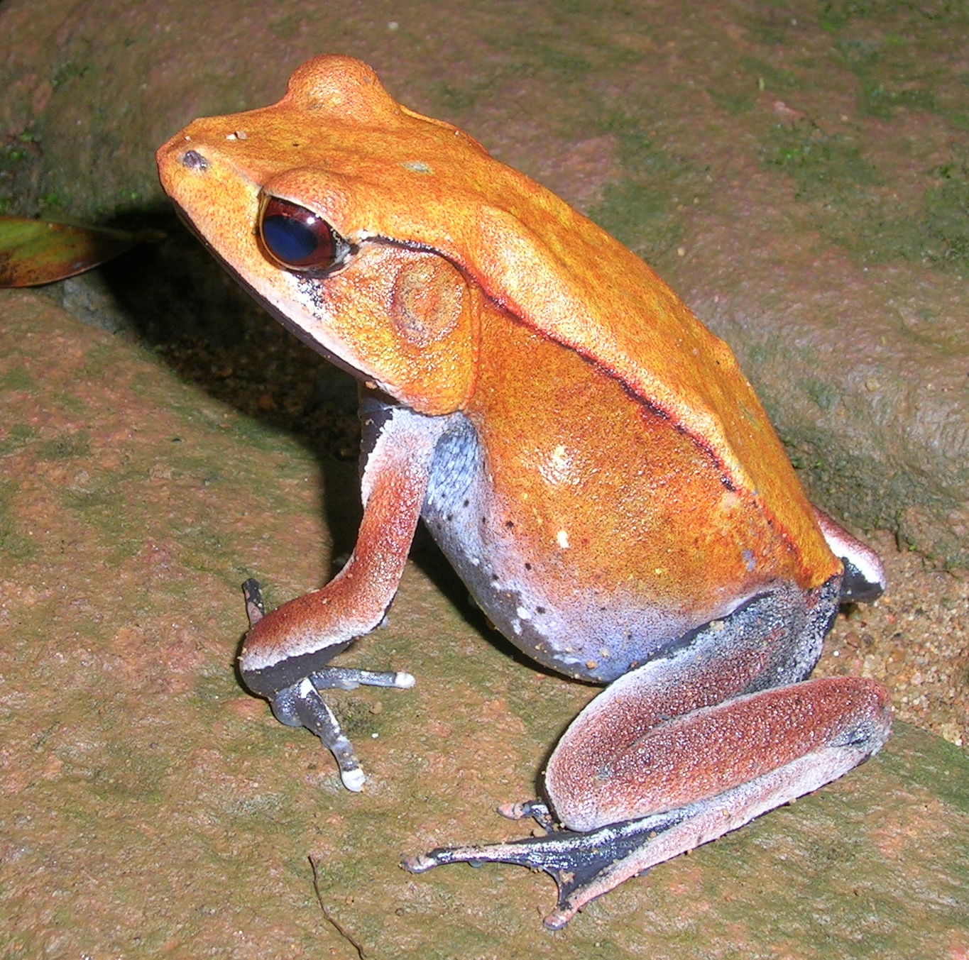 Rana curtipes, breeding male, North Wayanad, Kerala